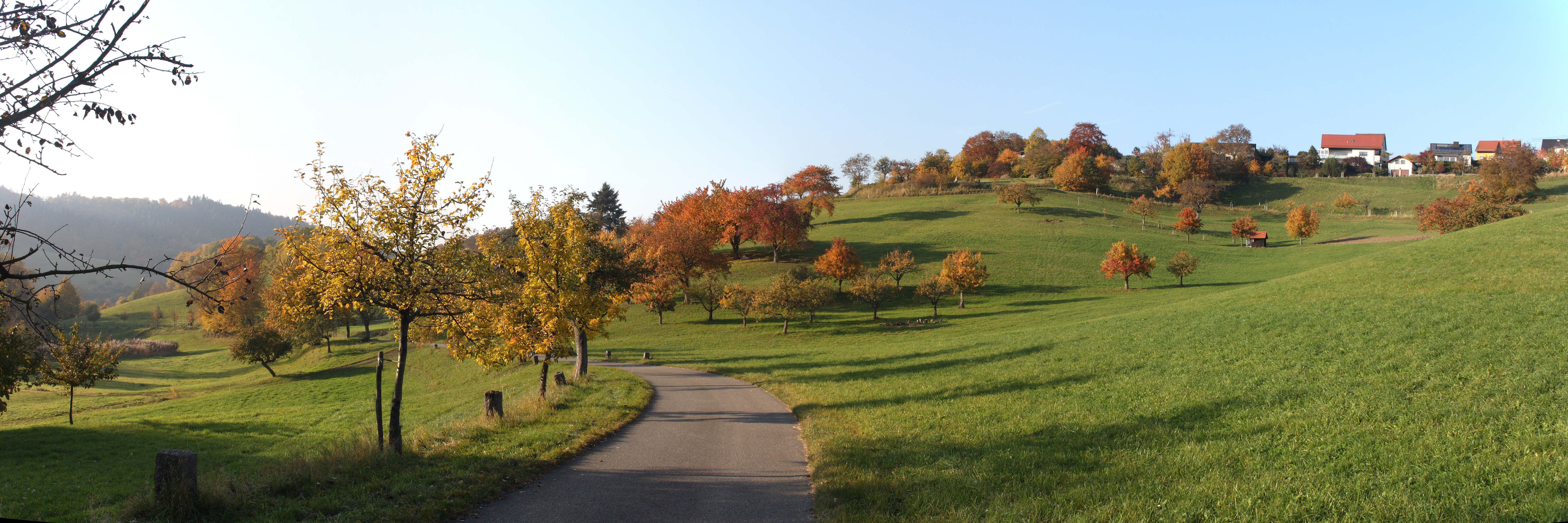 Apfelblütenweg (Apple bloom trail) between Rippenweiher and Heiligkreuz in fall.